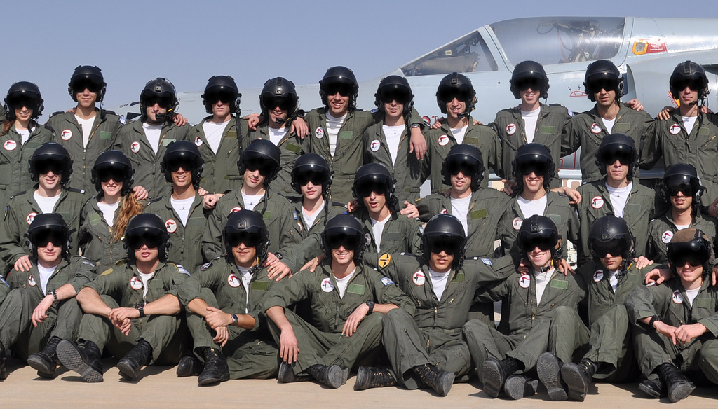 December 28, 2011 The 163rd IAF Flight course graduates this week with five female pilots expected to finish the course, each one specializing in a different field. Never in the history of IAF flight courses have so many female soldiers graduated from this prestigious course. The Israel Defense Forces Facebook page The Israel Defense Forces blog Follow us on Twitter